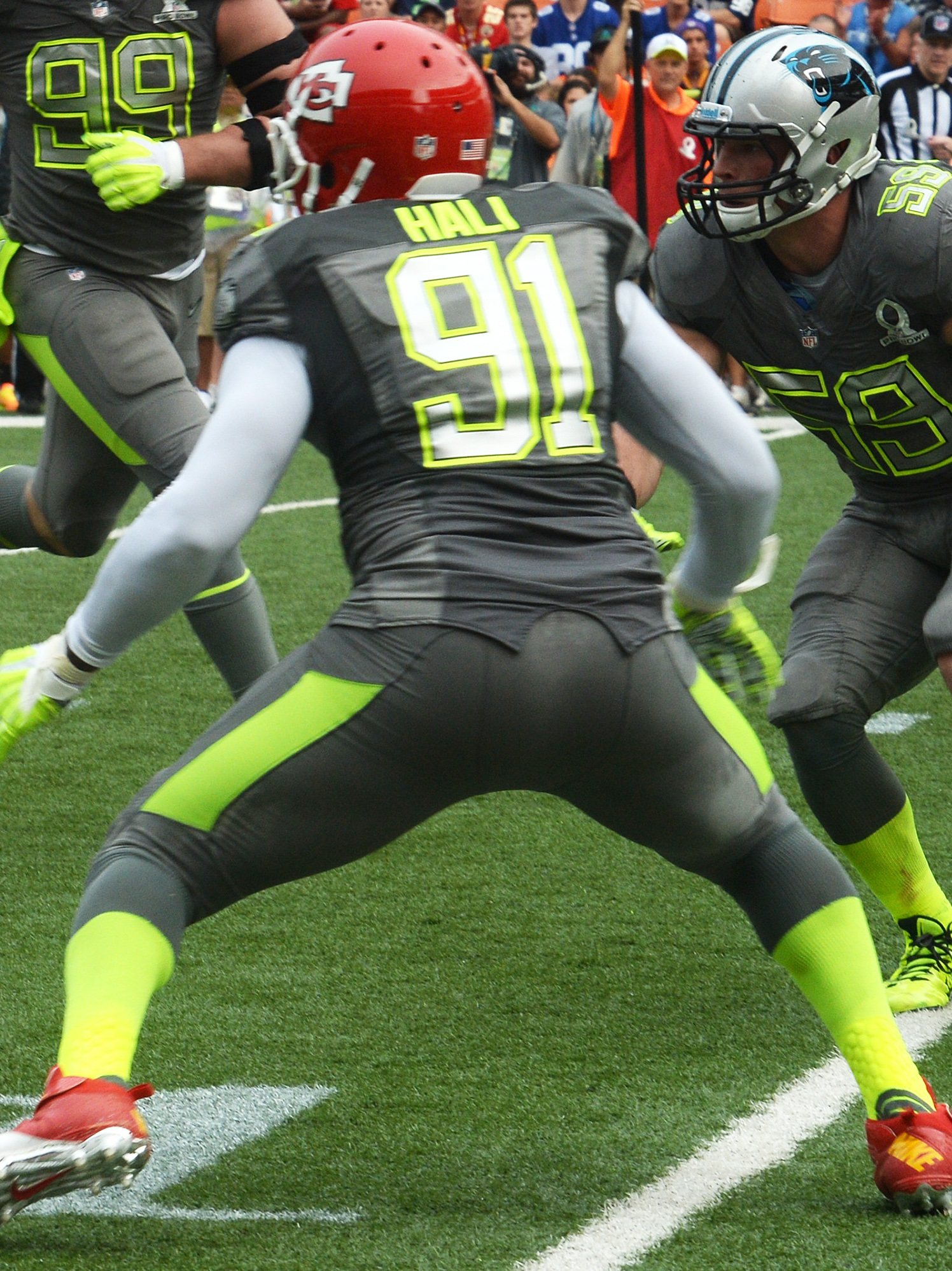 Tamba Hali in 2014 Pro Bowl.